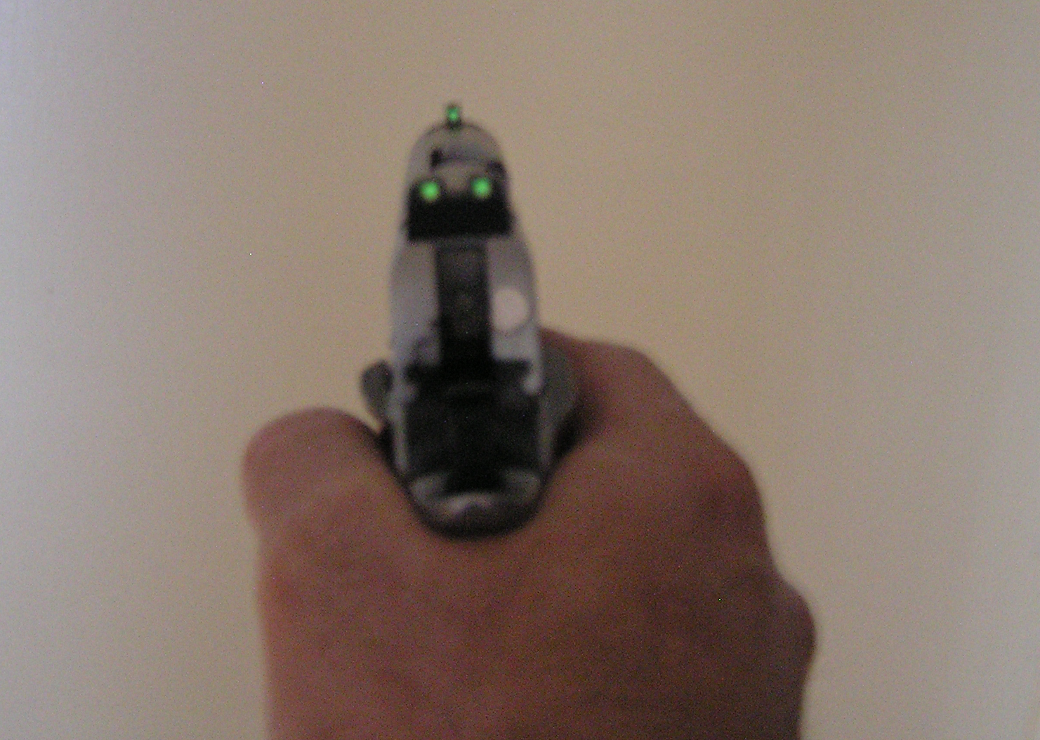 Handgun showing self lighting Tritium sights. These sights are commonly referred to as night sights and allow use in low-light and night conditions.